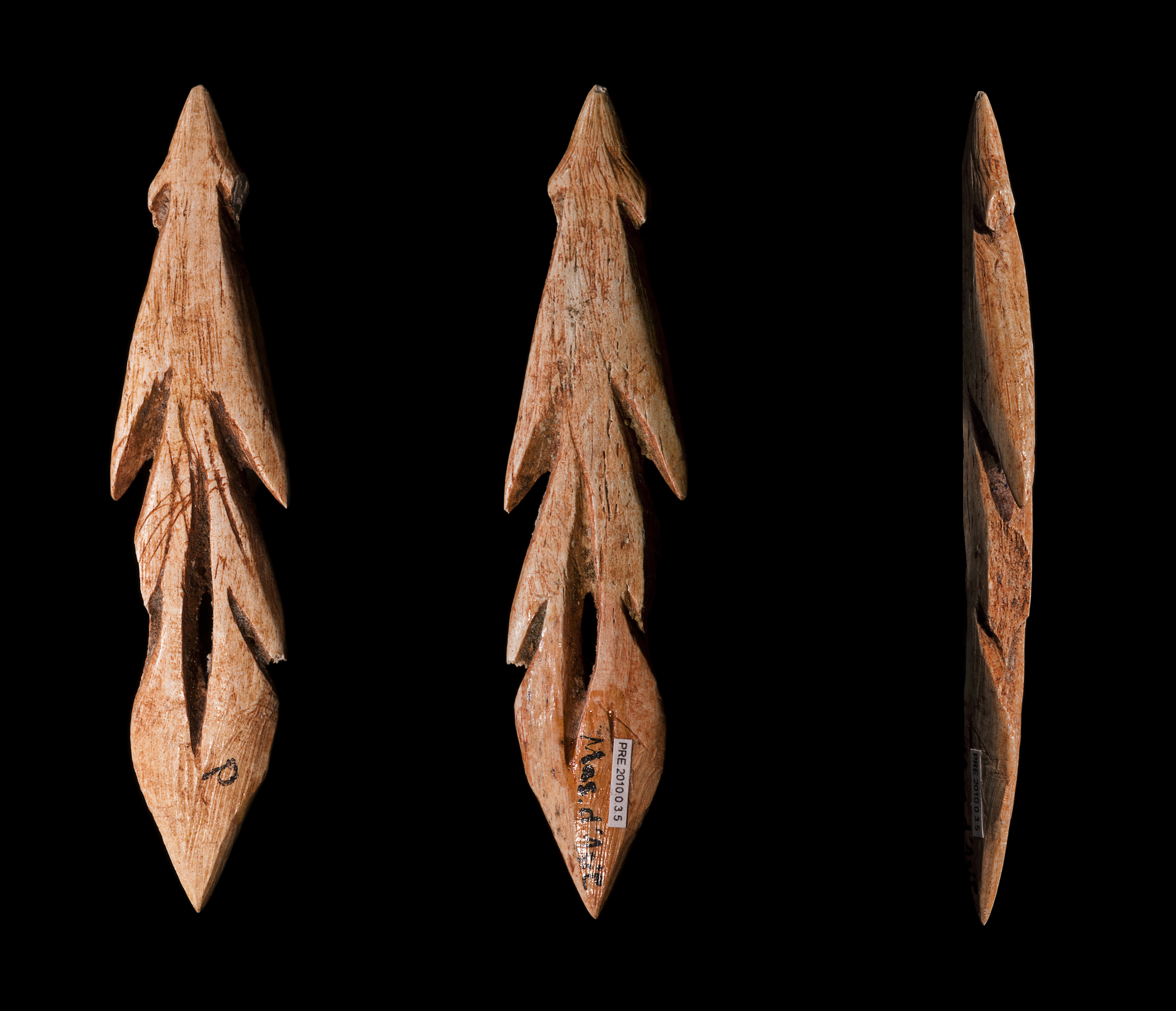 Different views of the same specimen.